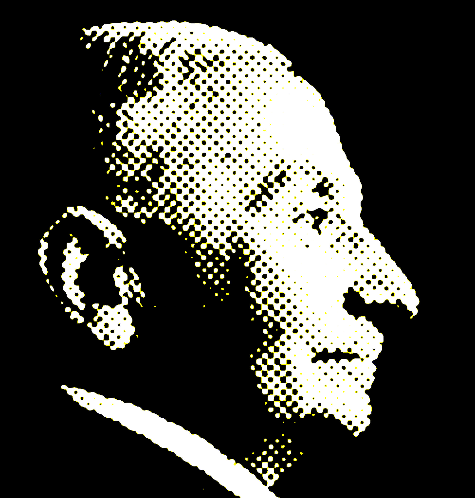 Ludwig von Mises profile. Inspired in a graphic desing by Mises Institute.